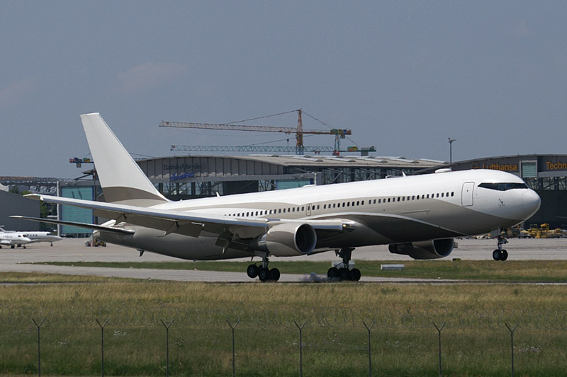 Roman Abramovich's Boeing 767-300 P4-MES